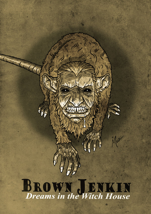 Brown Jenkin. Muzski's artwork based on H. P. Lovecraft's story The Dreams in the Witch House.